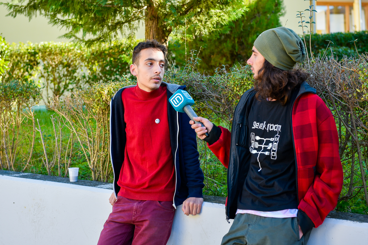 Boris Budini getting interviewed from IN TV during the first day of #WikiWeekend16 in Tirana.